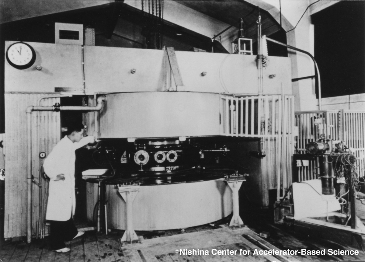 The second Riken cyclotron. Magnet diameter 150 cm. Completed 1943 by Dr. Yoshio Nishina